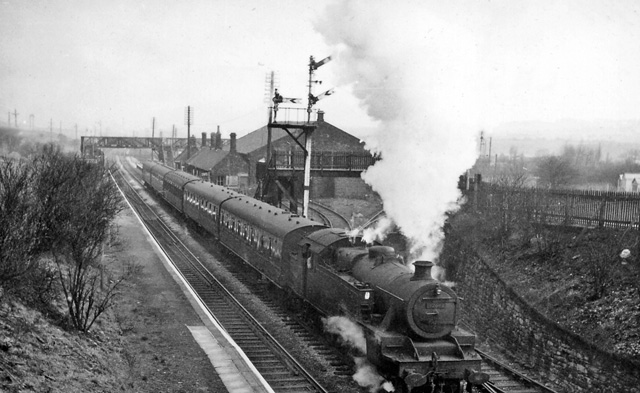 Blackrod Station. View NW, towards Preston; ex-L&Y Manchester (Victoria) - Bolton - Preston main line. An Up local is pulling away, hauled by a Stanier 4P 2-6-4T.